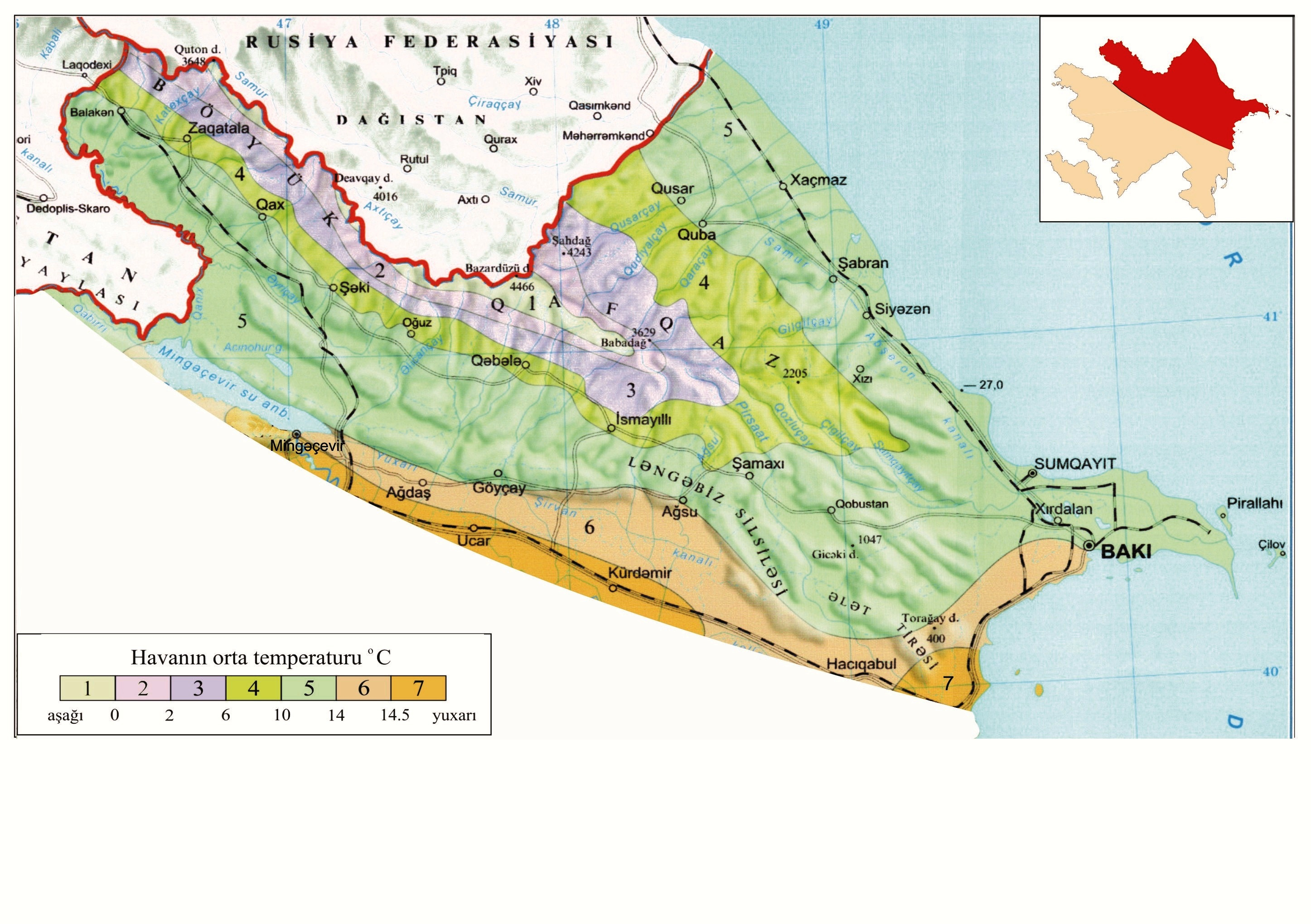 Böyük Qafqaz təbii vilayətində havanın orta illik temperaturu